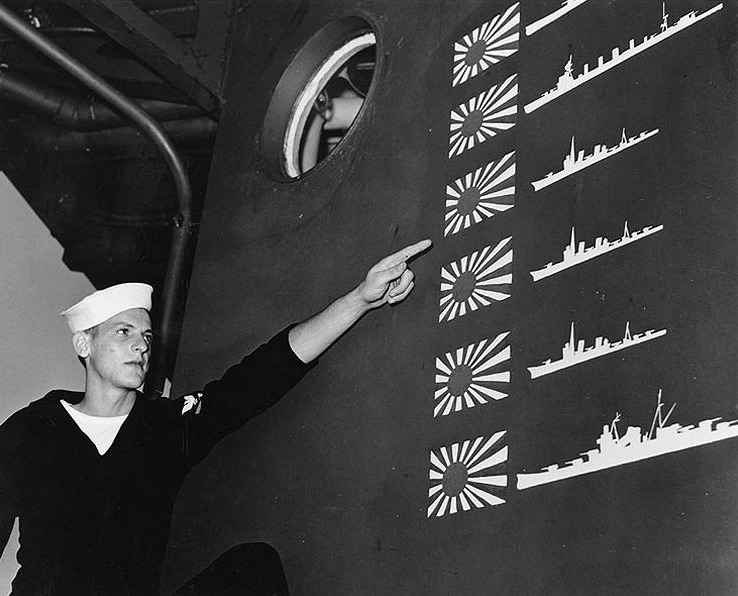 U.S. Navy sailor W.R. Martin points out details of the Japanese trophy flags painted on the pilothouse of the light cruiser USS Boise (CL-47) as a scoreboard of enemy ships claimed sunk in the Battle of Cape Esperance, 11-12 October 1942. The six Japanese ships (two heavy cruisers, a light cruiser and three destroyers) represented in this scoreboard greatly overstates the actual enemy losses, which were one heavy cruiser (Furutaka) and one destroyer (Fubuki) sunk and one heavy cruiser (Aoba) badly damaged. This overclaiming was typical of contemporary night surface actions. The photo was taken at the Philadelphia Naval Shipyard, Pennsylvania (USA), soon after Boise arrived there for battle damage repairs in November 1942.